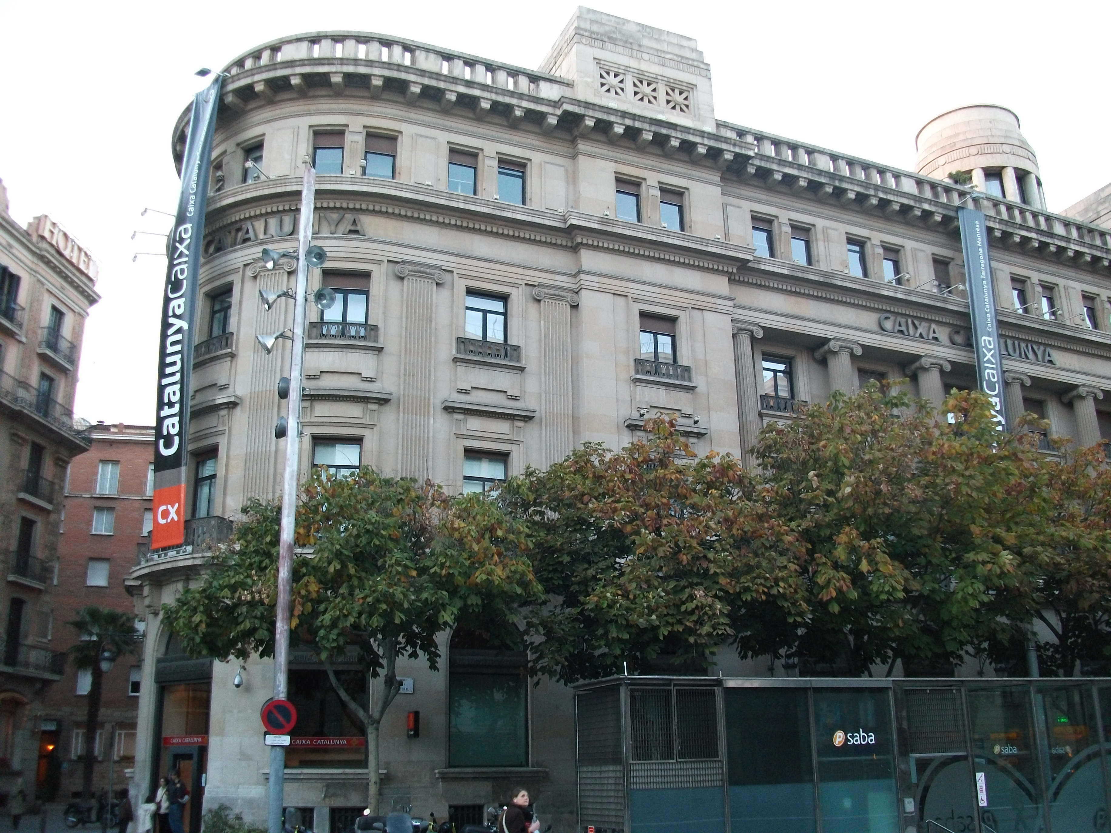 Picture of the CatalunyaCaixa headquarters in Barcelona.